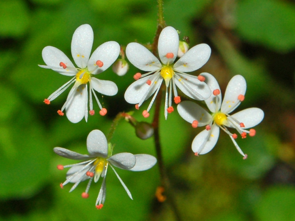 Saxifraga cuneifolia - Gattorna, Genova, Italy